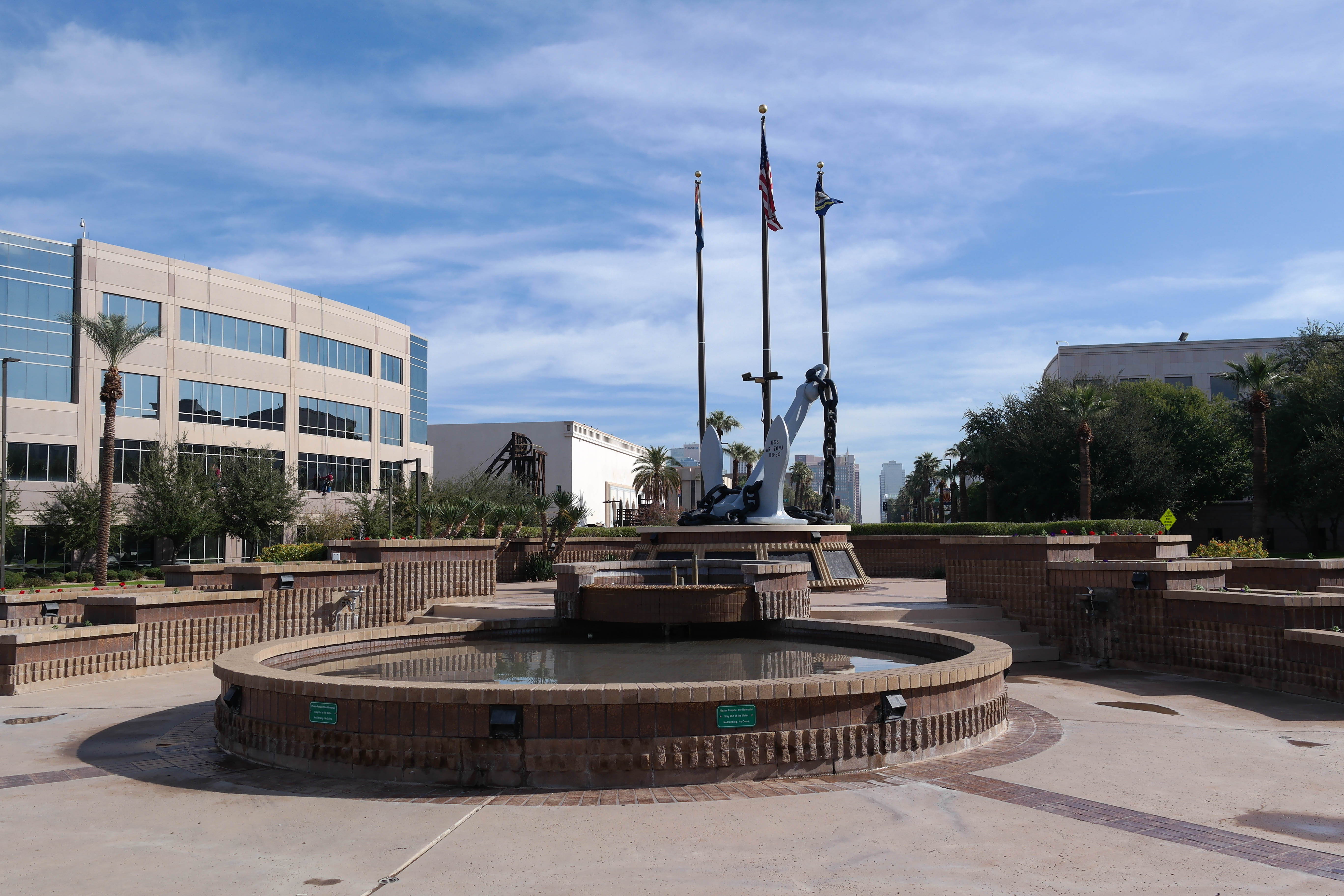 A monument in the Wesley Bolin Memorial Plaza in Phoenix, Arizona